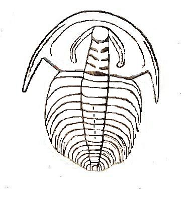 A slightly deformed specimen of the trilobite Eofallotaspis from the Campito Formation, redrawn from an image of the Hazen Collection